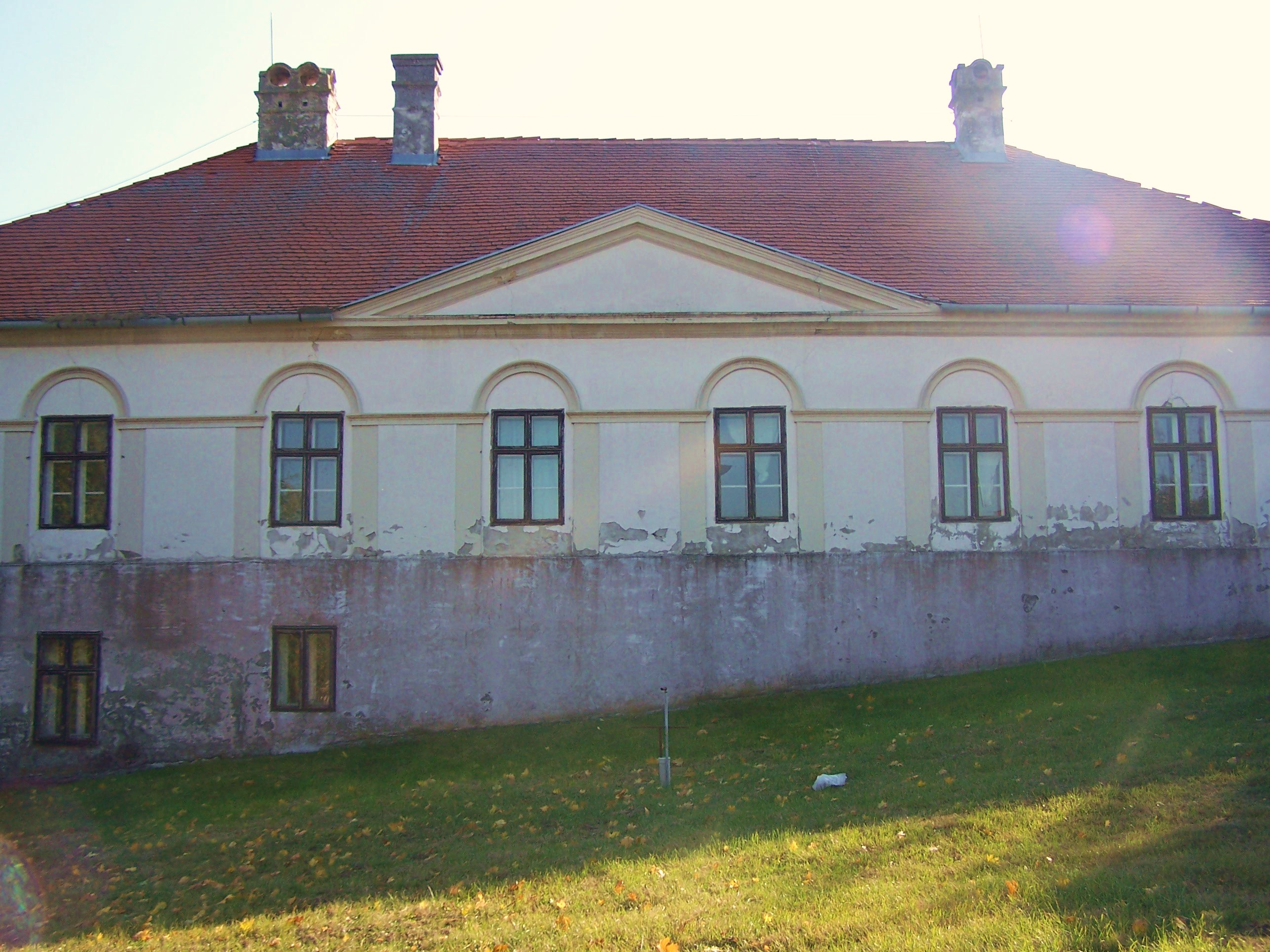 Latinovits mansion, Bácsborsód